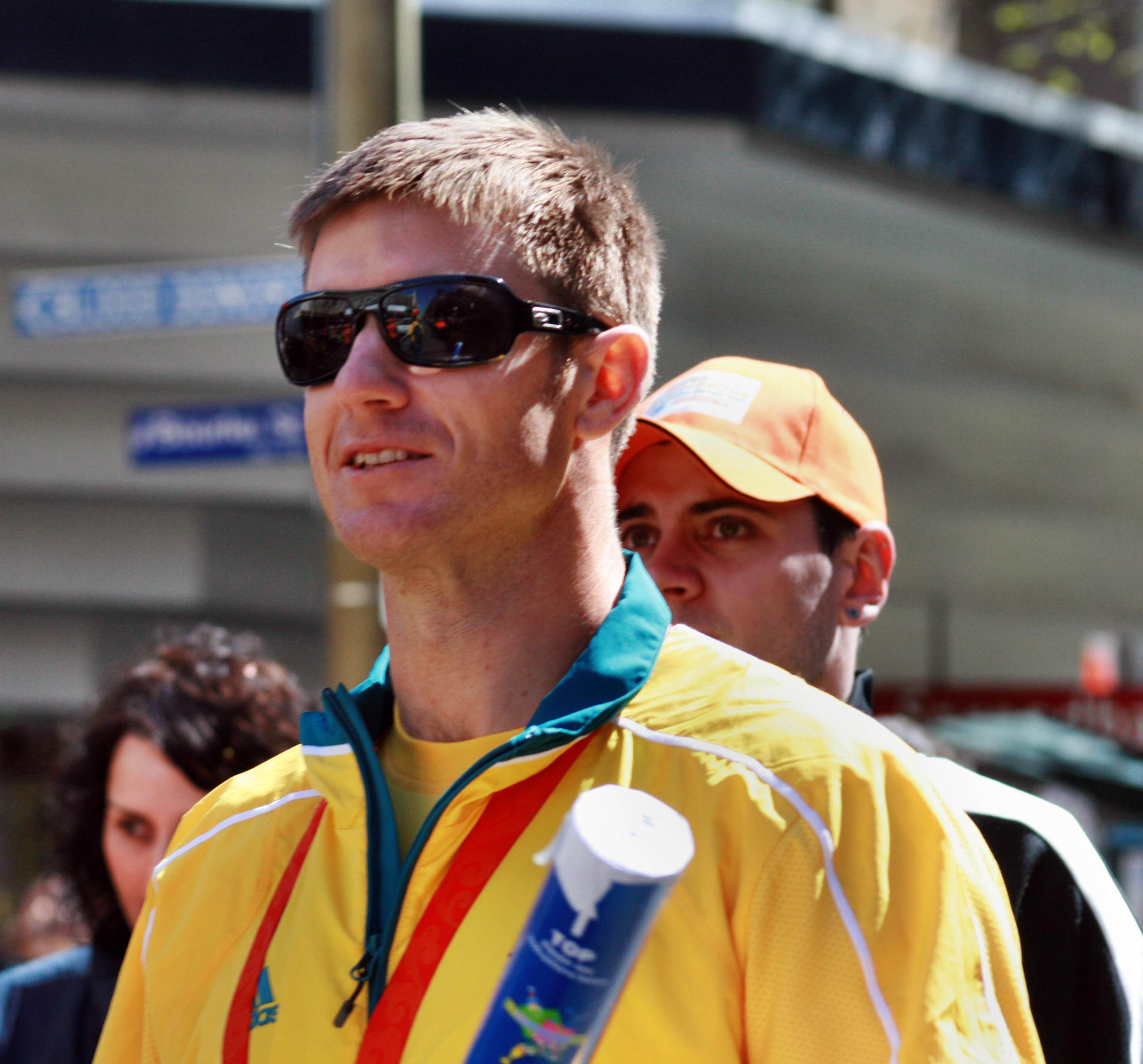 Melbourne homecoming parade for 2008 Olympic Team. Slalom kayaker Robin Bell.